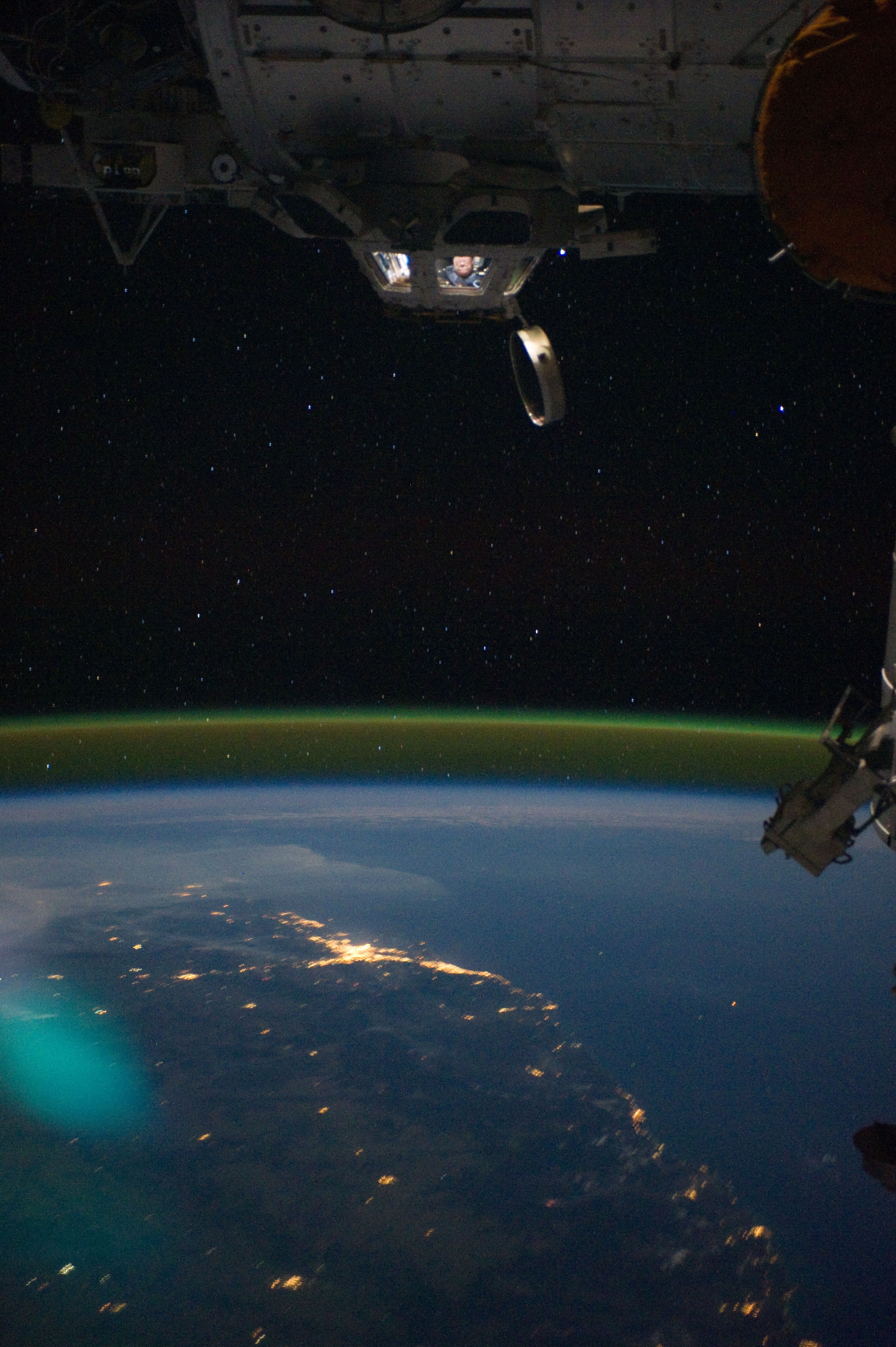 This unique photographic angle, featuring the International Space Station's Cupola and crew activity inside it, other hardware belonging to the station, city lights on Earth and airglow was captured by one of the Expedition 28 crew members. The major urban area on the coast is Brisbane, Australia. The station was passing over an area southwest of Canberra.